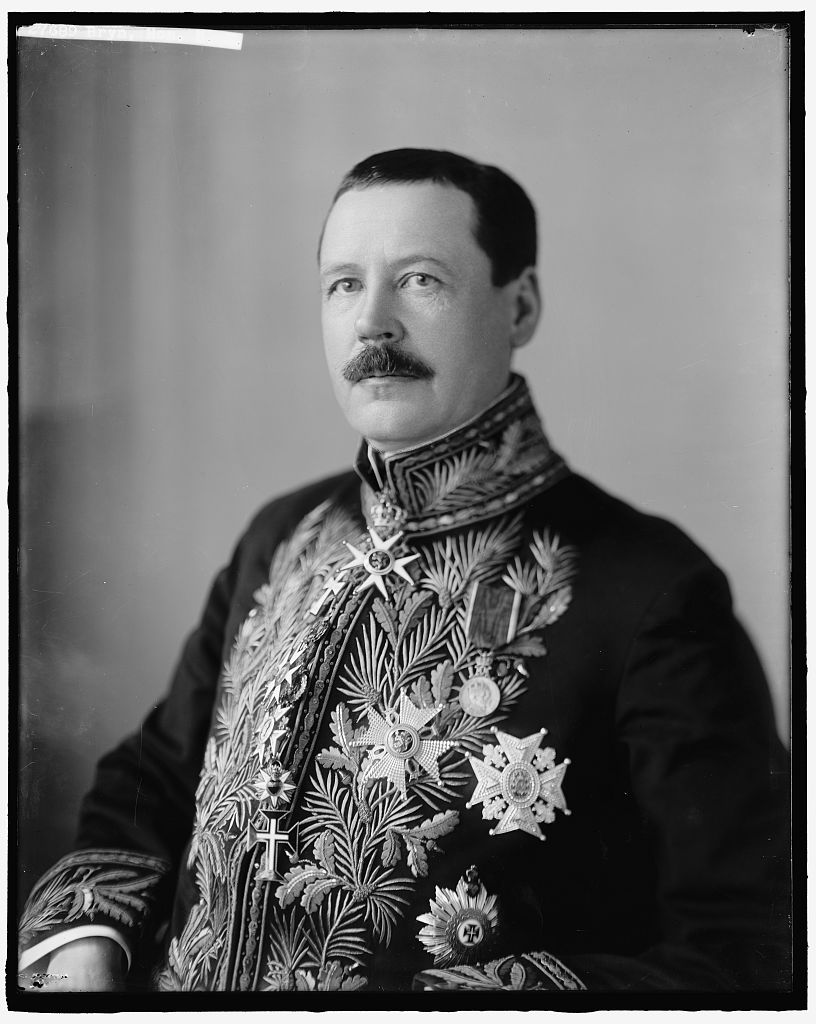 The Norwegian minister at Washington, DC, Helmer Halvorsen Bryn.